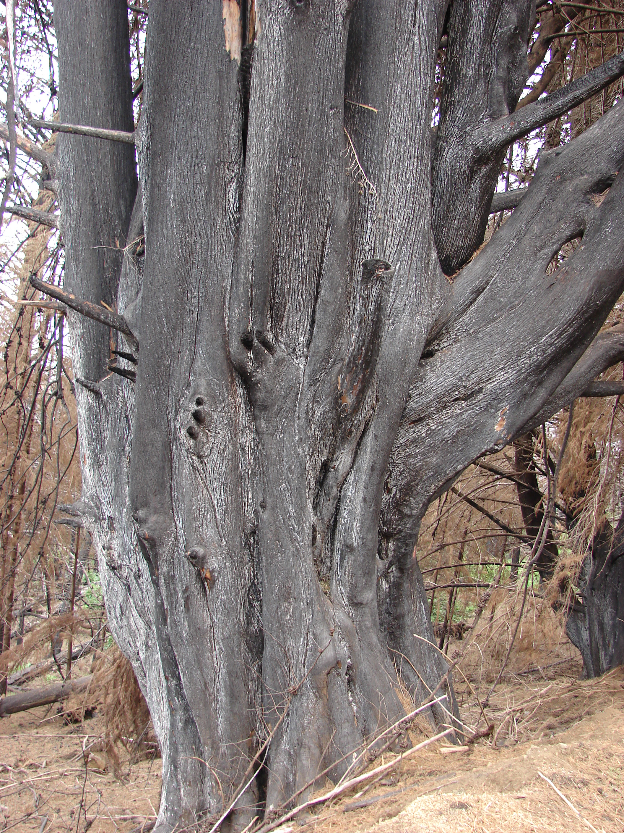 Cupressus macrocarpa (fire area and burnt tree). Location: Maui, Polipoli